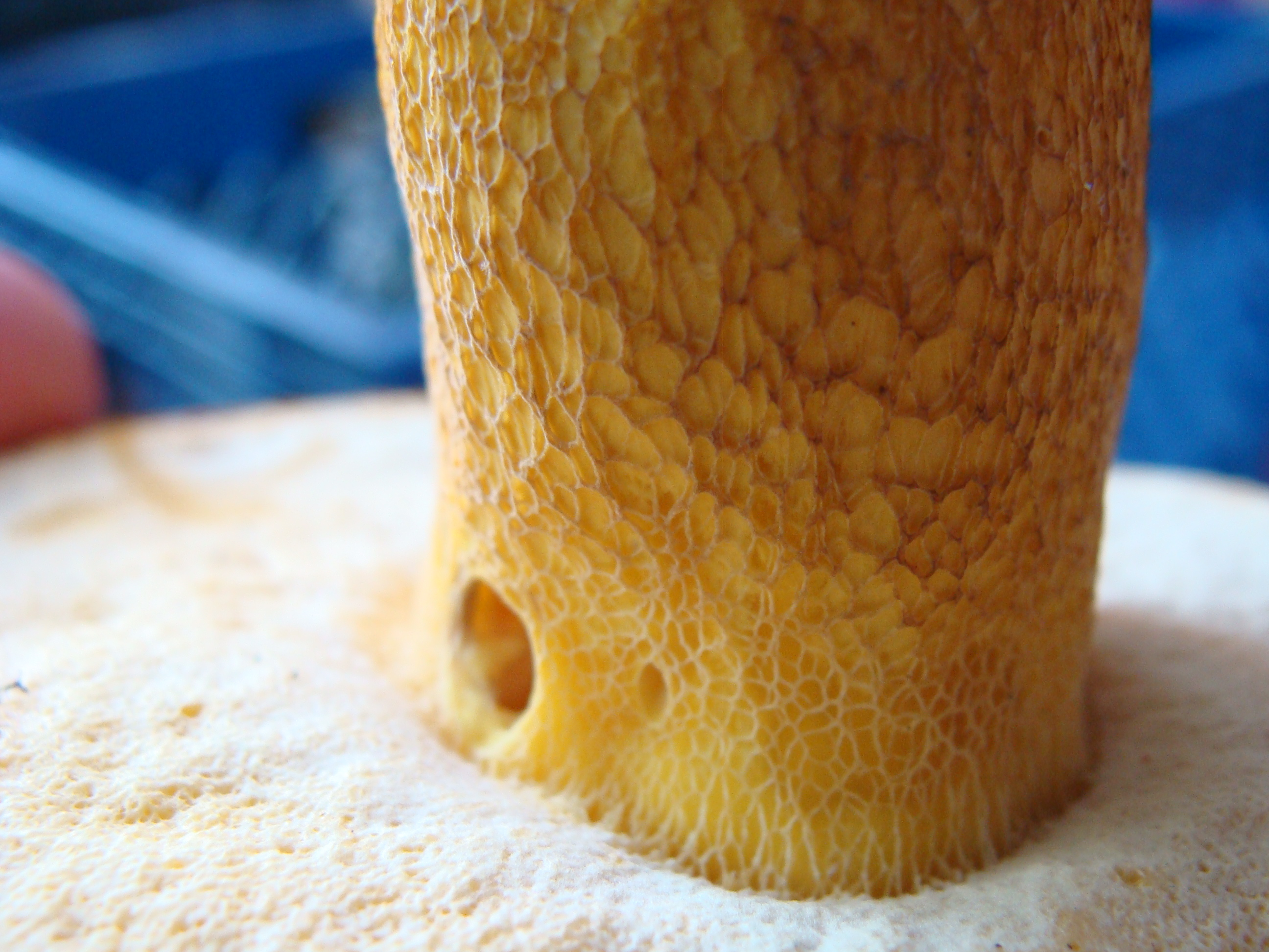 Closeup of the interface of the stipe and pore surface of the bolete mushroom Boletus auripes Peck. SPecimen collected in Forest 44 Conservation Area, Saint Louis Co., Missouri, USA.